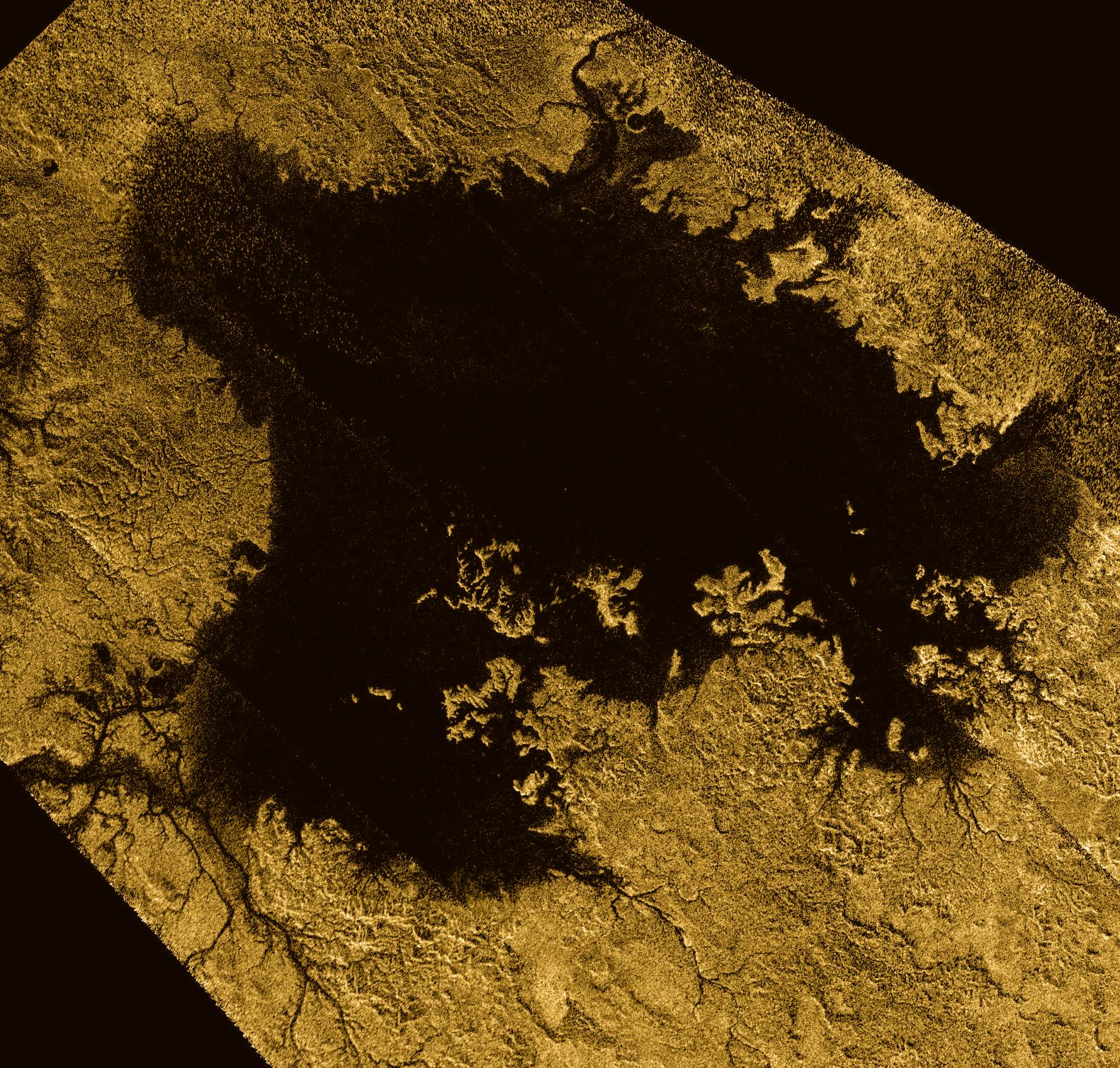 Ligeia Mare, shown here in a false-color image from NASA's Cassini mission, is the second largest known body of liquid on Saturn's moon Titan. It is filled with liquid hydrocarbons, such as ethane and methane, and is one of the many seas and lakes that bejewel Titan's north polar region. Cassini has yet to observe waves on Ligeia Mare and will look again during its next encounter on May 23, 2013. The image is a false-color mosaic of synthetic aperture radar images obtained by the Cassini spacecraft between February 2006 and April 2007. Dark areas (low radar return) are colored black while bright regions (high radar return) are colored yellow to white. In this color scheme, liquids, which are dark to the radar, end up appearing black and the solid surface of Titan, which appears bright to the radar, ends up appearing yellow.